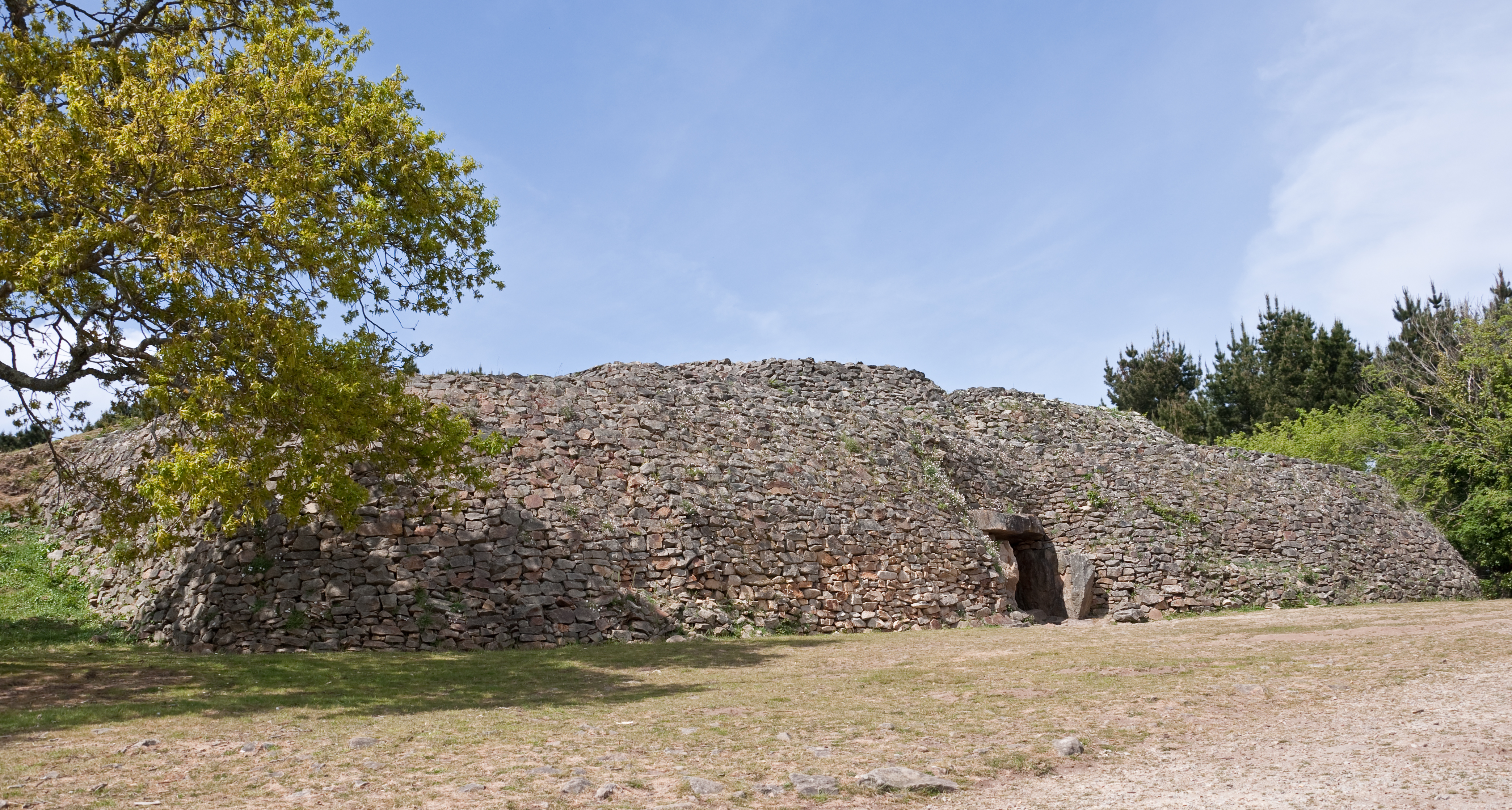 The Gavrinis cairn, a megalithic passage grave located on Gavrinis Island (Morbihan, Brittany, France) .